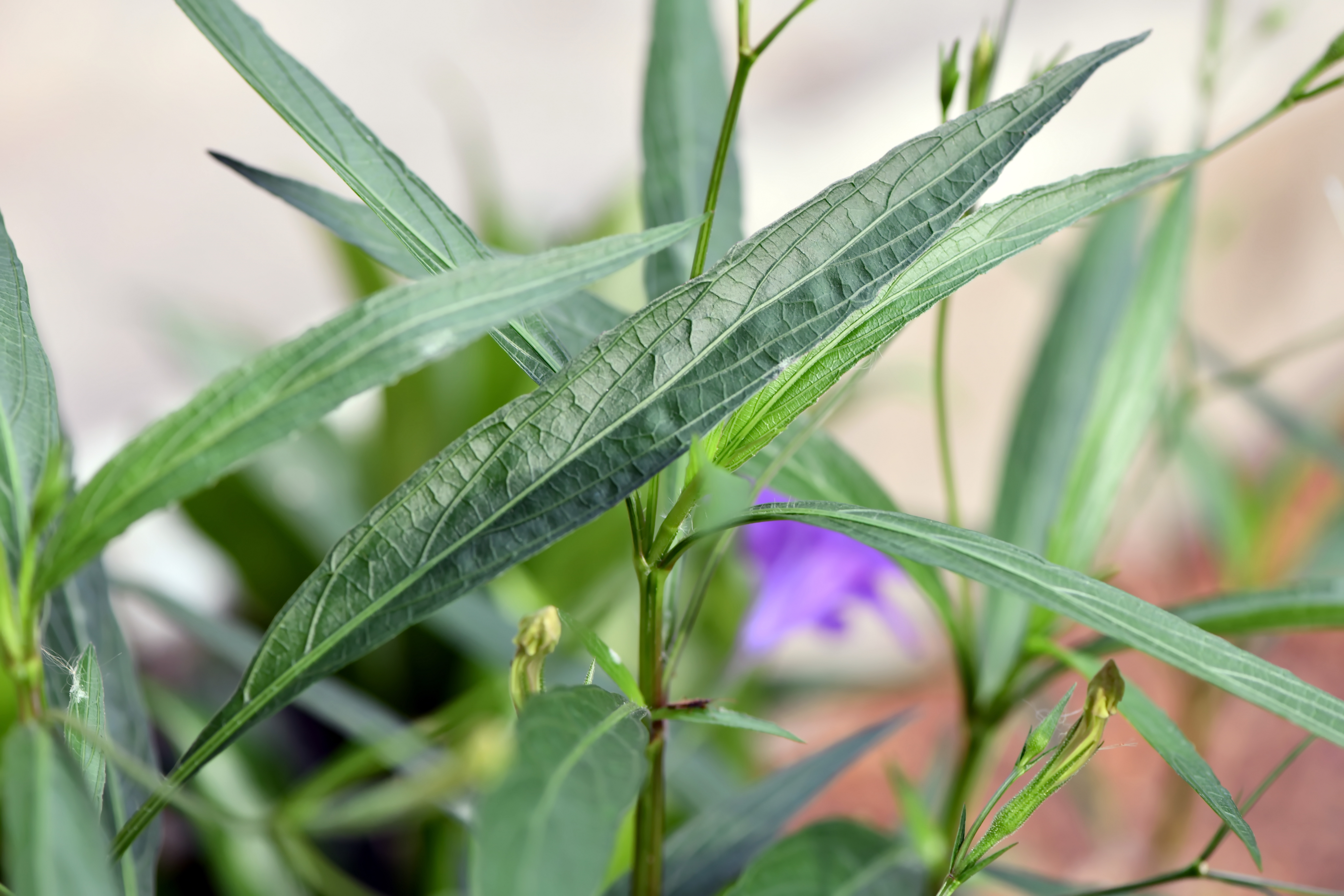 Ruellia tuberosa, Plant of Thailand. ต้อยติ่ง